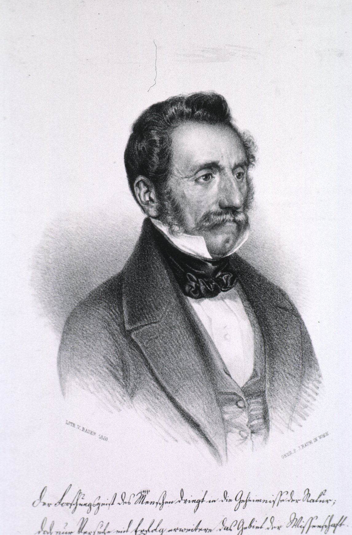 The lithograph of dr. Johann Martin Honigberger